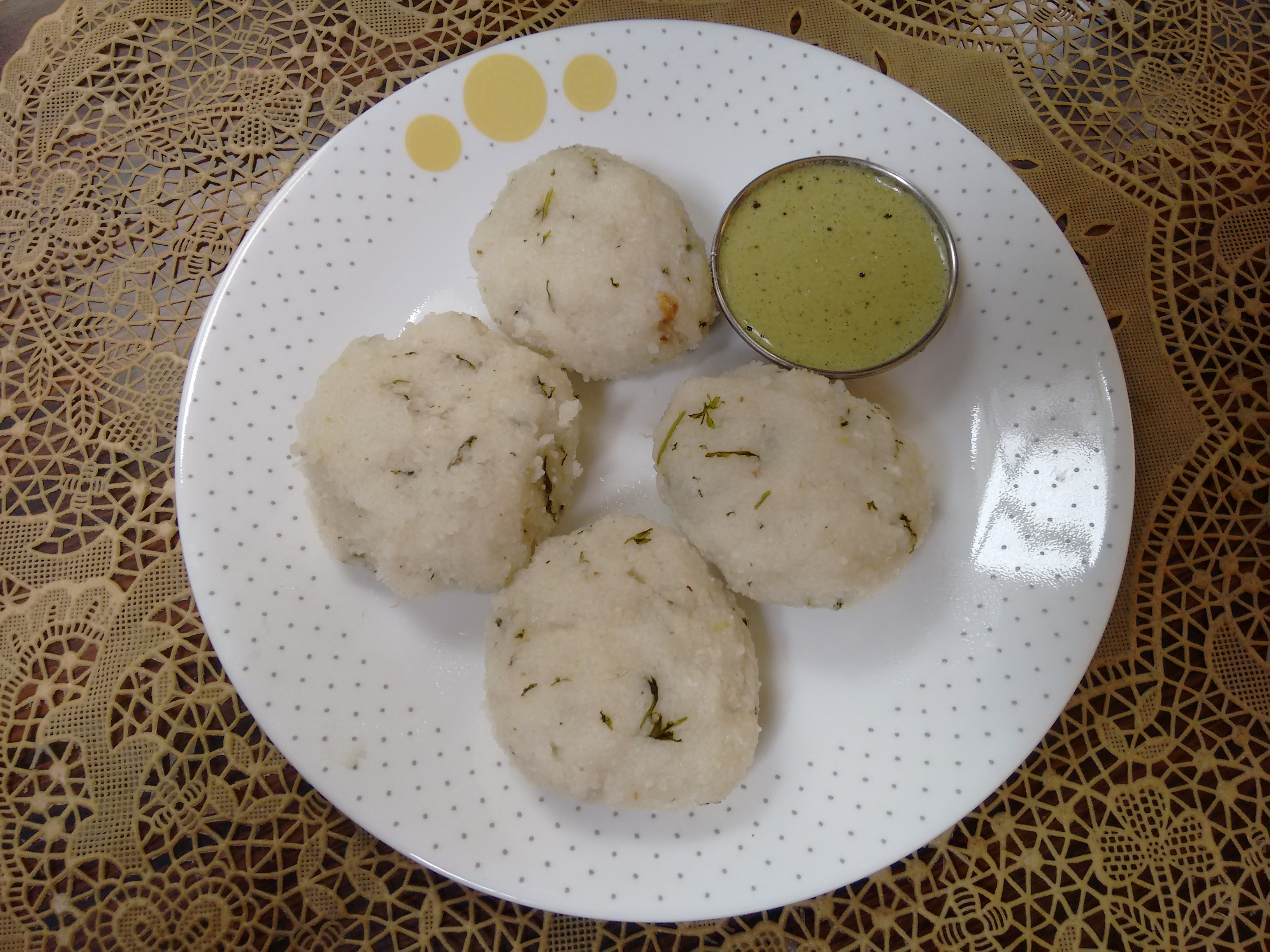 Rice dumpling with coriander chutney ಕನ್ನಡ: Pundi Gatti with Kothambari Chutney